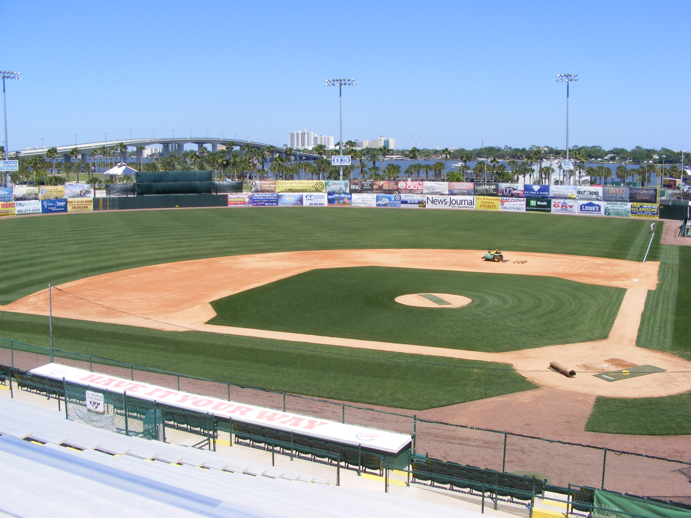 The infield at Jackie Robinson Ballpark, at Daytona Beach, Florida. View from the bleachers.